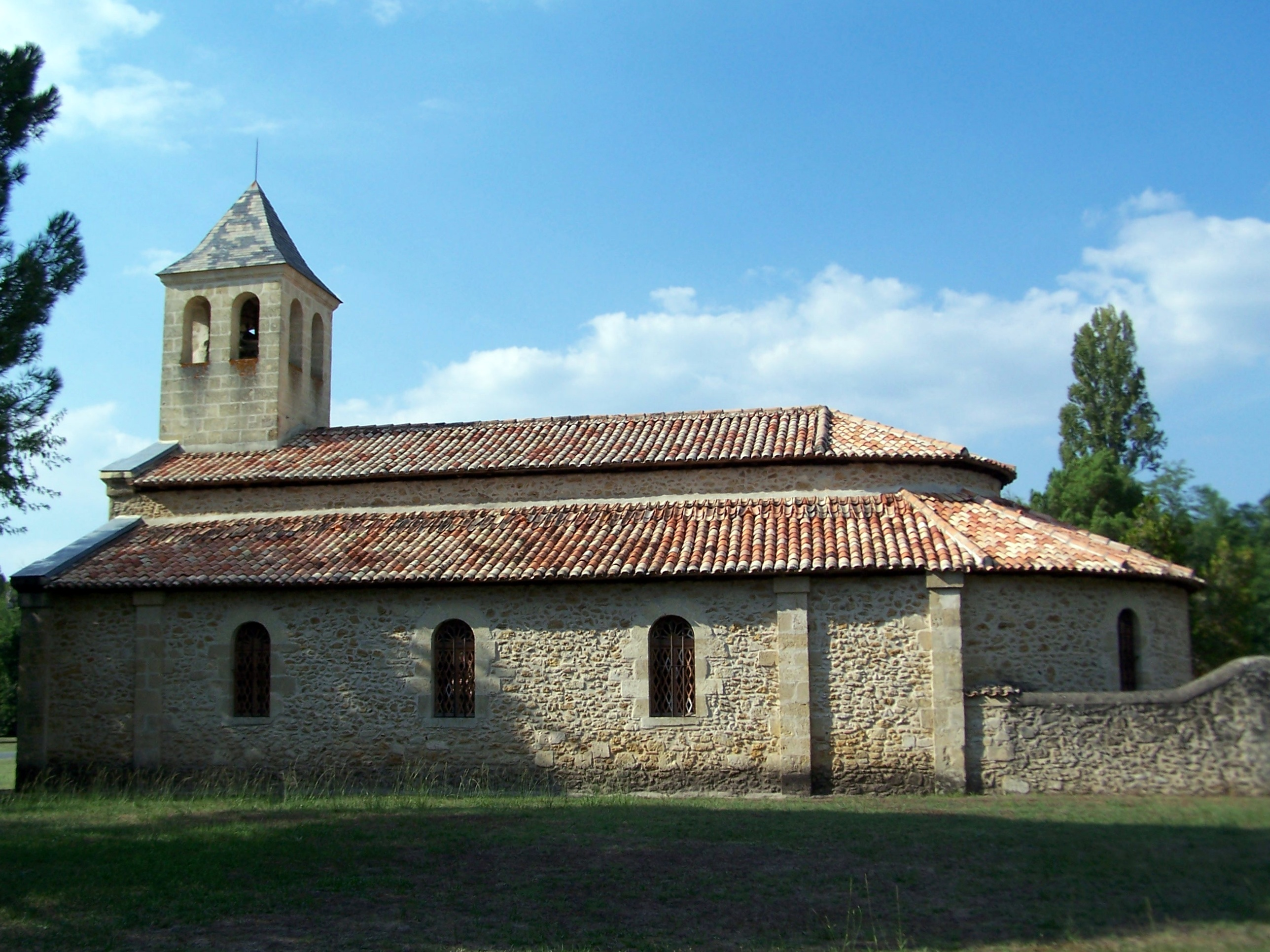 Church Saint-Michel of Bourideys (Gironde, France)